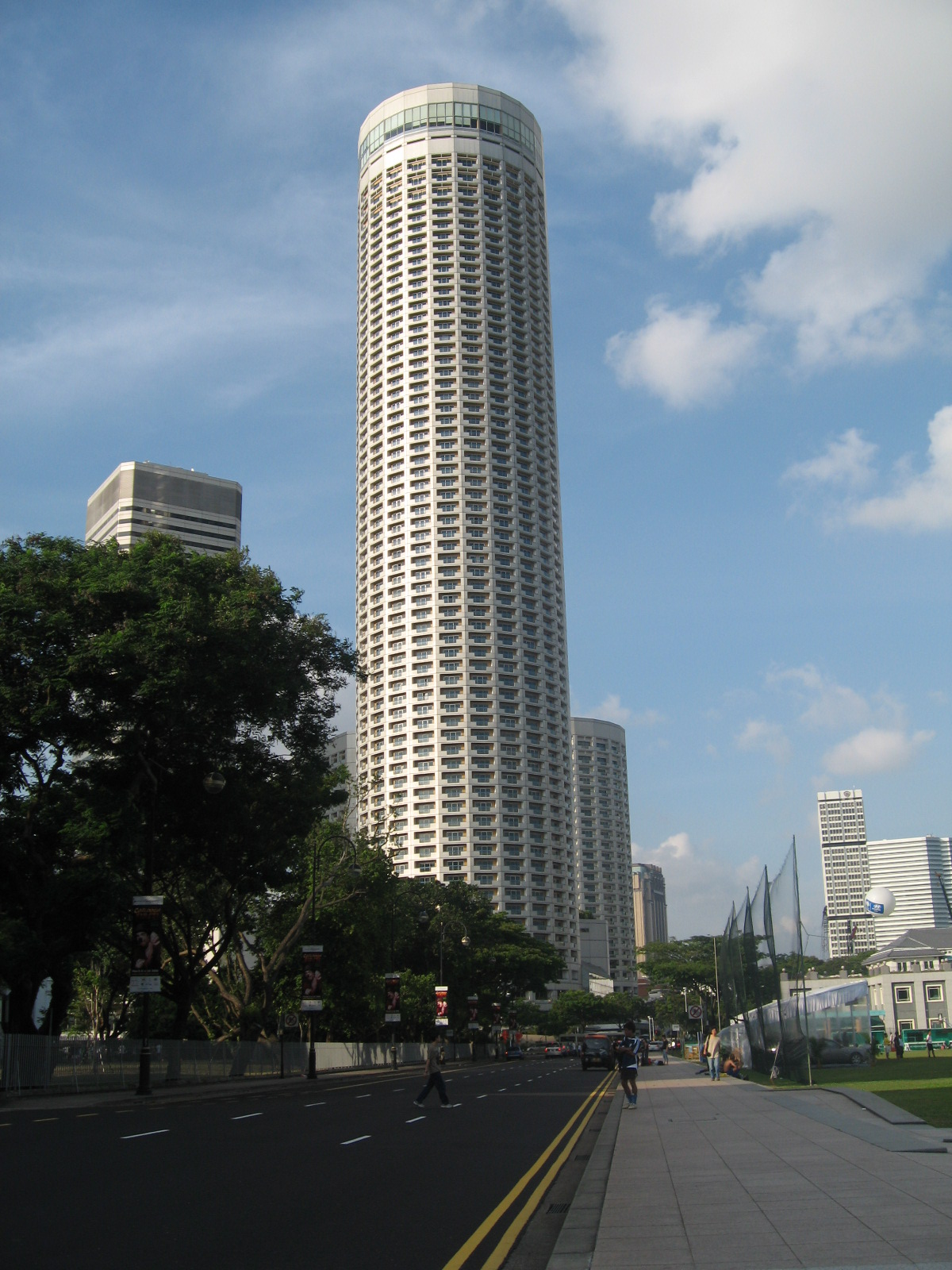 Swissôtel The Stamford, Raffles City, Singapore.